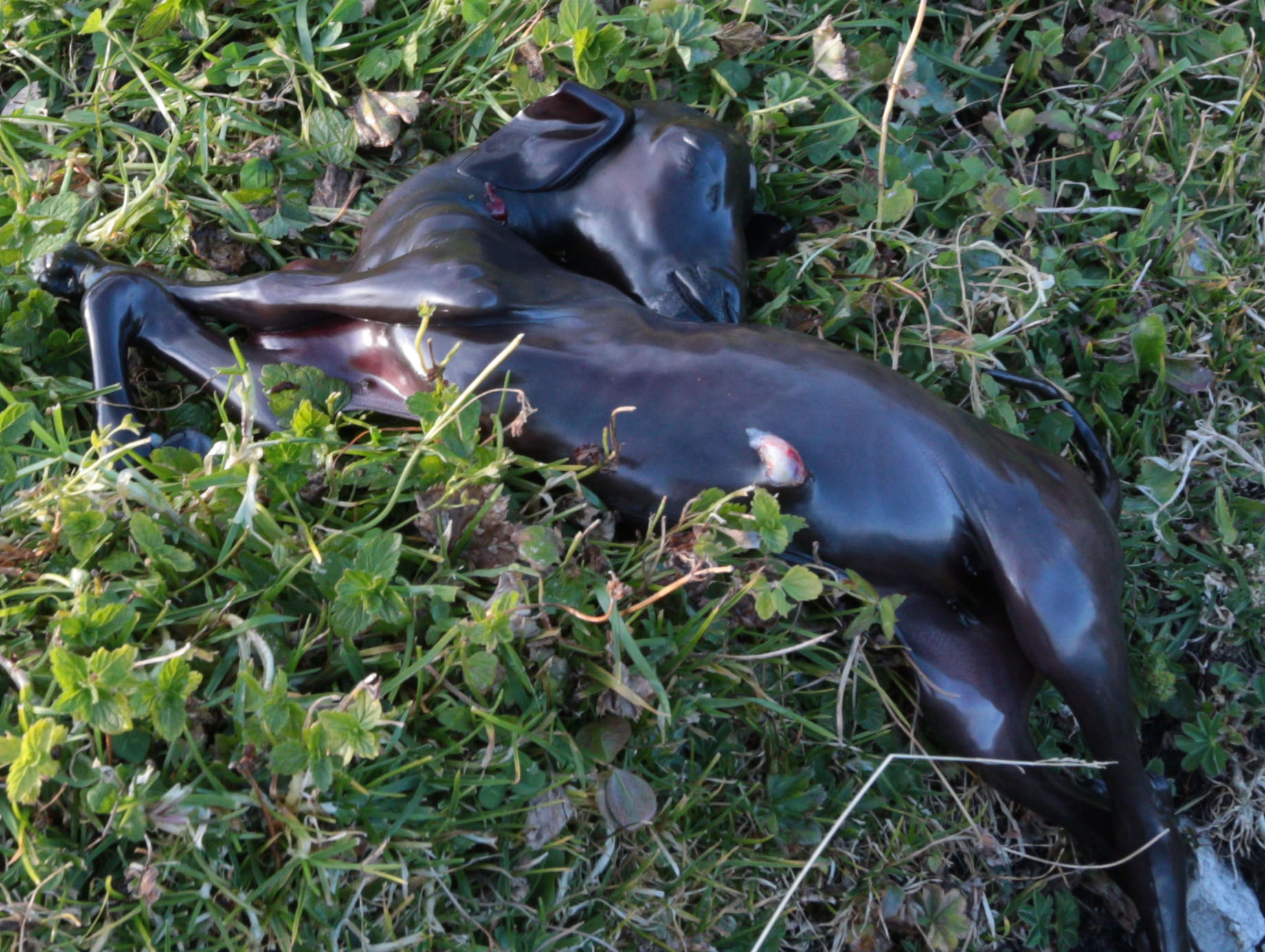 A dead birth of a sheep